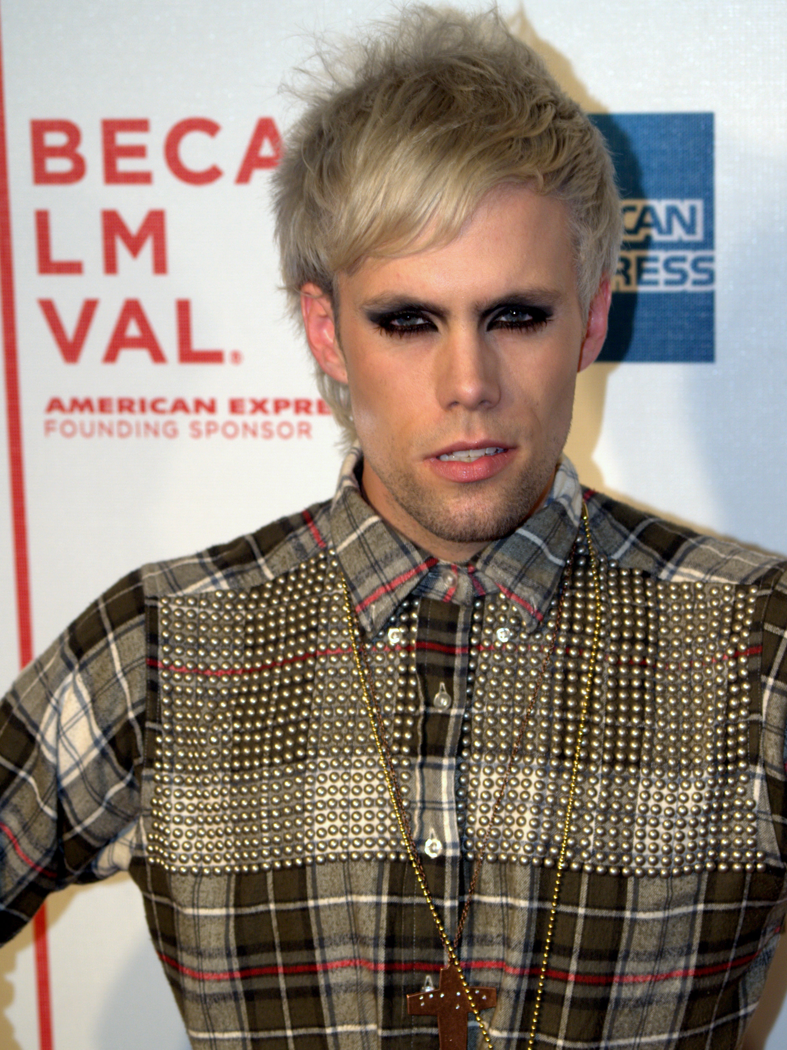 Justin Tranter at the 2009 Tribeca Film Festival for the premiere of Serious Moonlight, in which his band Semi Precious Weapons had two songs.